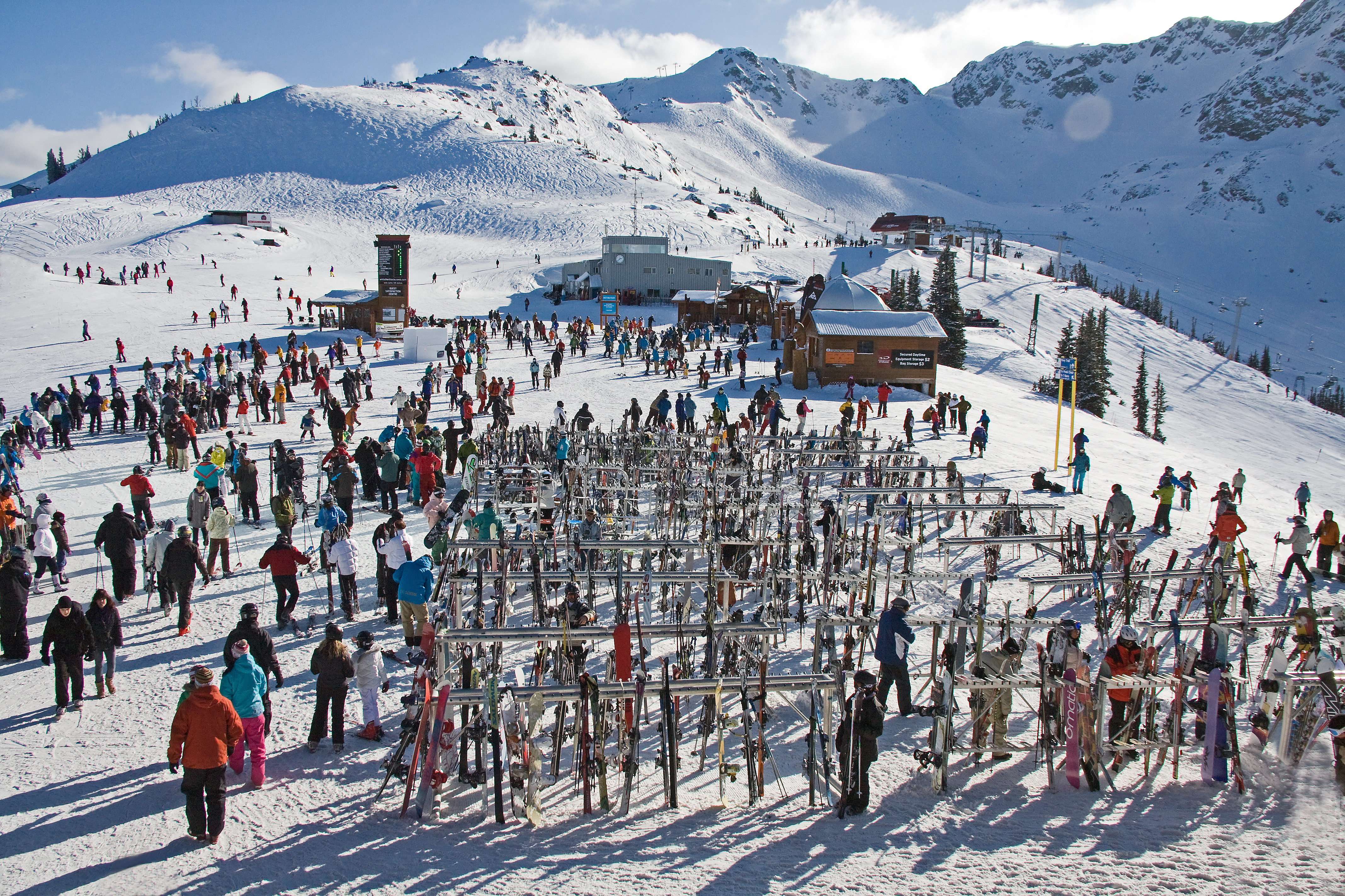 View from the Roundhouse Lodge terminal for the Whistler Mountain Gondola. Elevation 6000+ feet. From here secondary lifts go to the higher elevations in the background.